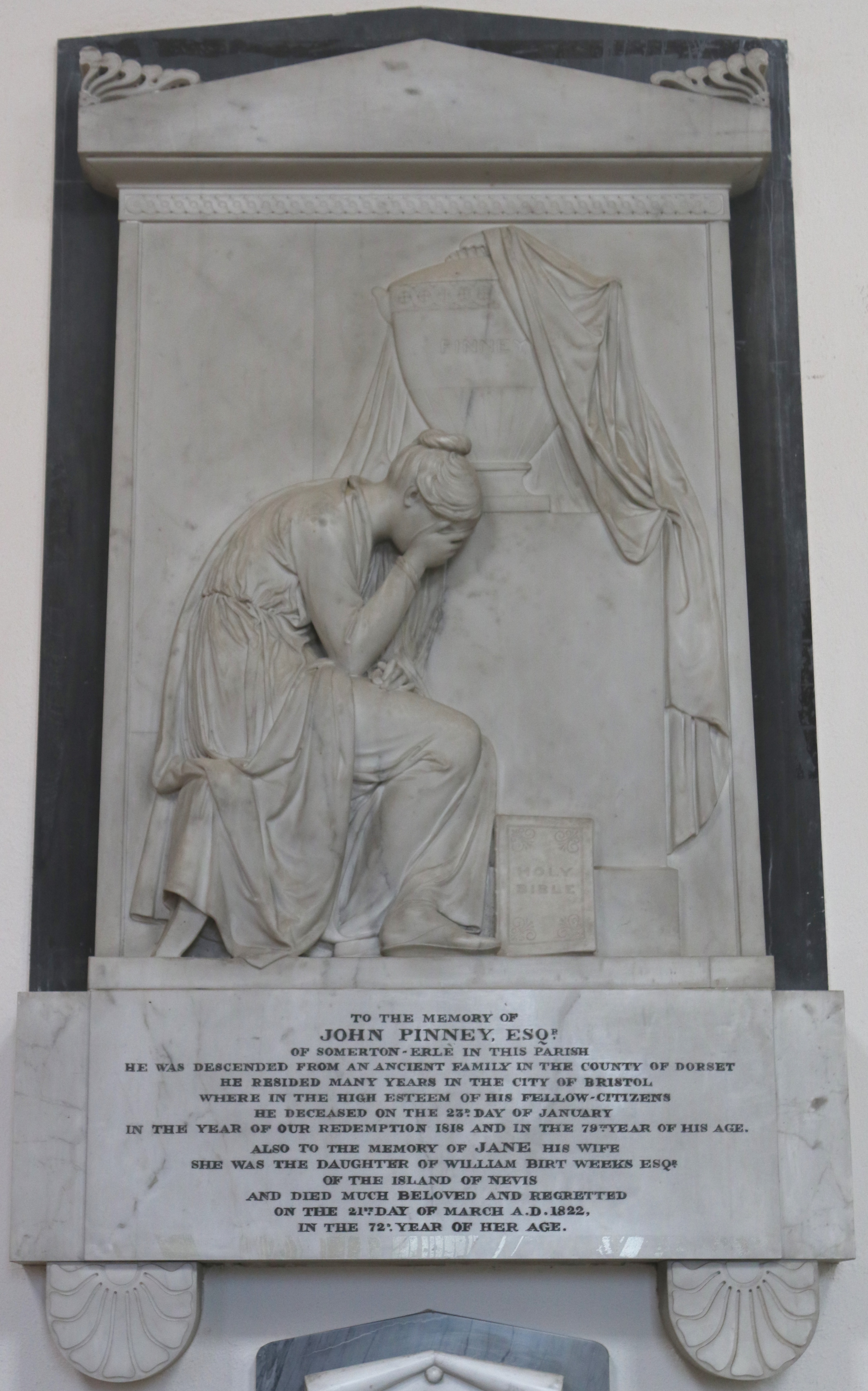 John Pinney. Died 23 January 1818 aged 78. And Jane his wife, daughter of William Birt Weeks Esq., died 21 March 1822 aged 72.